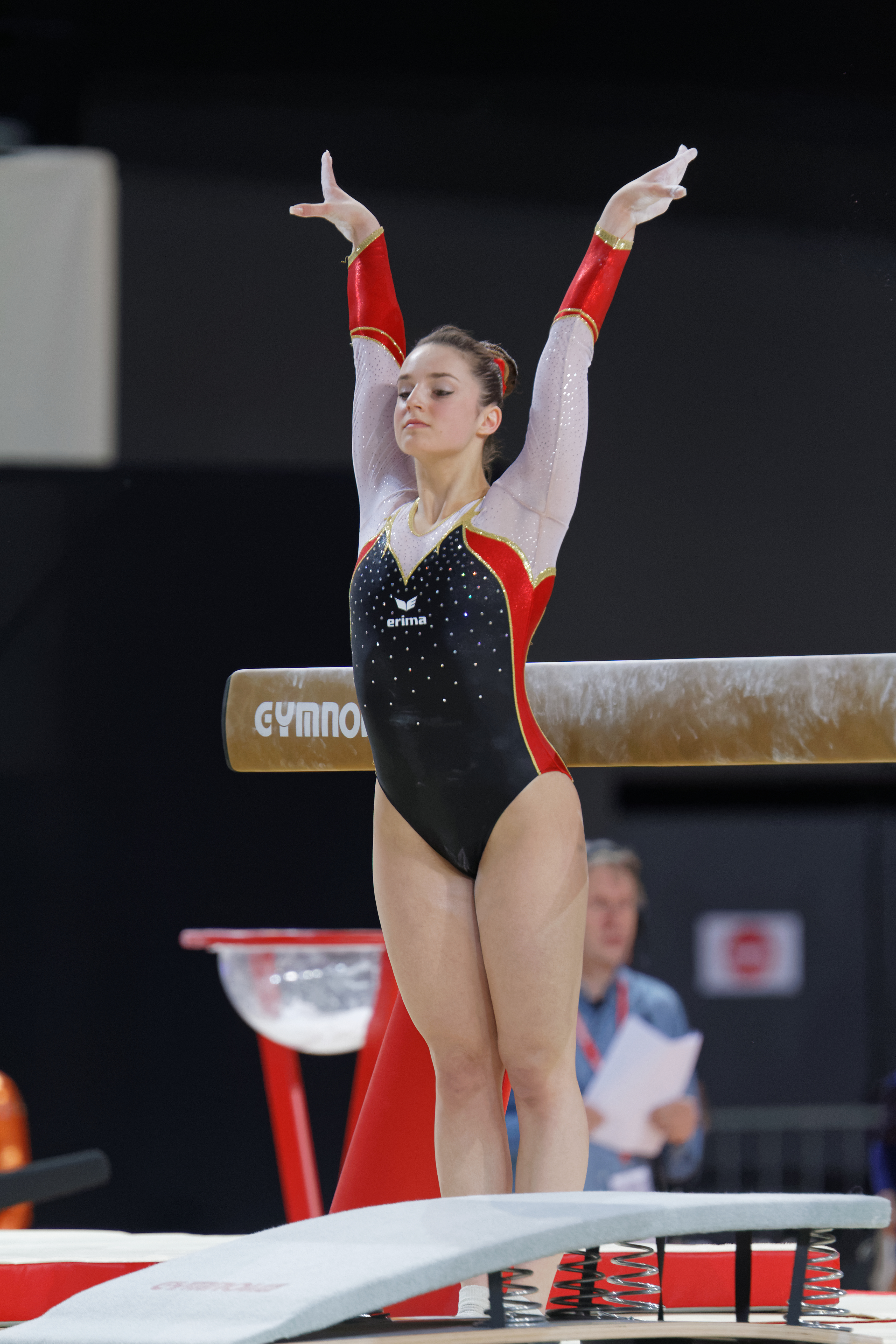 2015 European Artistic Gymnastics Championships. Bamance beam.